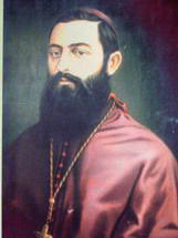 Mons. Vital, enemy of freemasons.